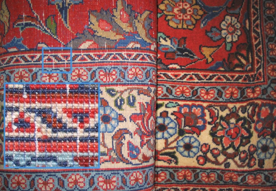 The non-visible part of a persian carpet.